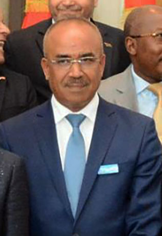 Noureddine Bedoui the Algerian Minister of the Interior